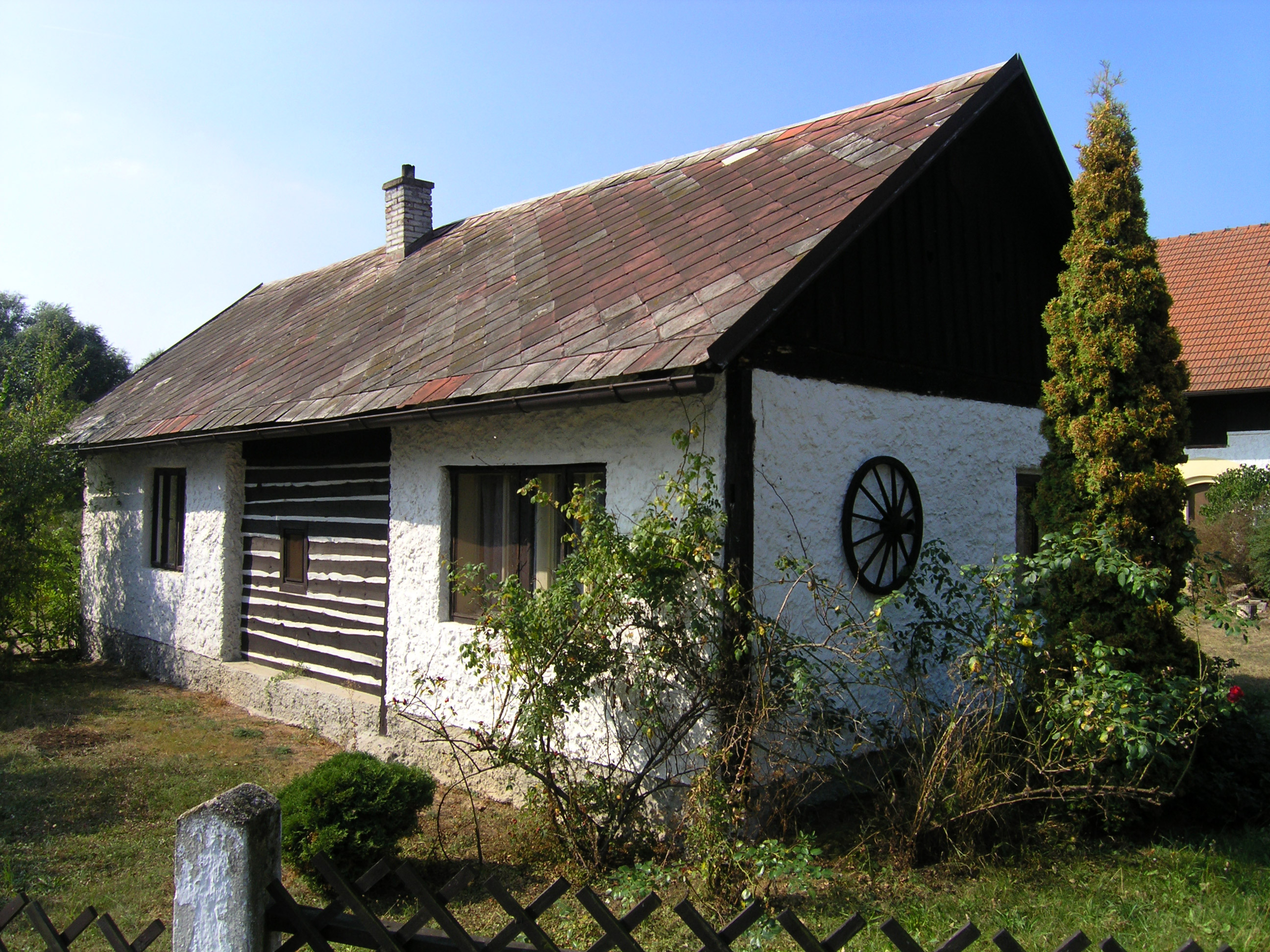 Old house in Radostov, Czech Republic